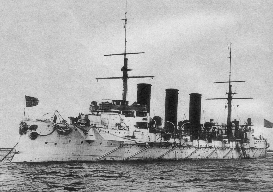 Imperial Russian cruiser Bogatyr'.